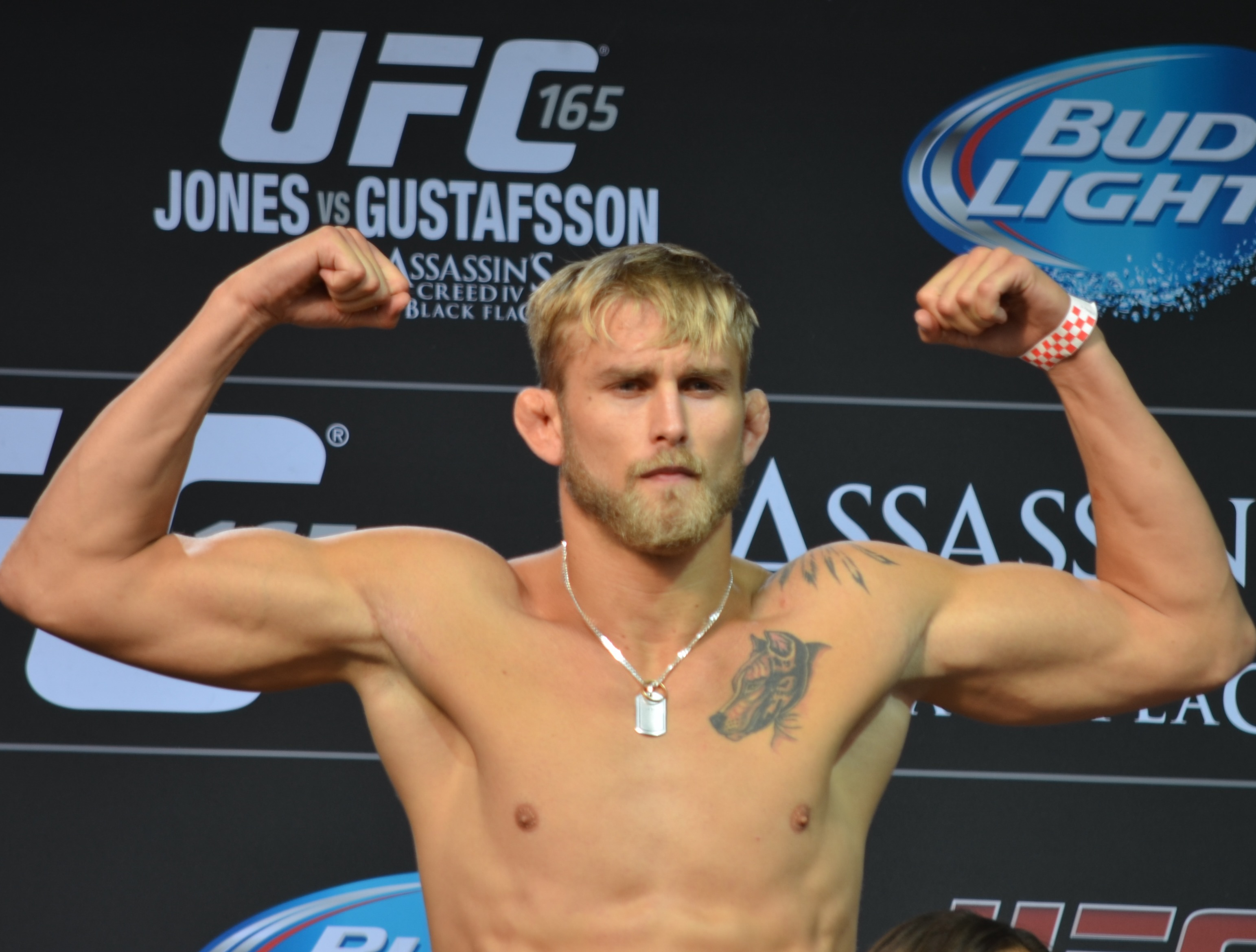 UFC 165 Weight-ins in Toronto Other information Alexander Gustafsson posing after a weight-in for UFC 165 in Toronto, Ontario, Canada